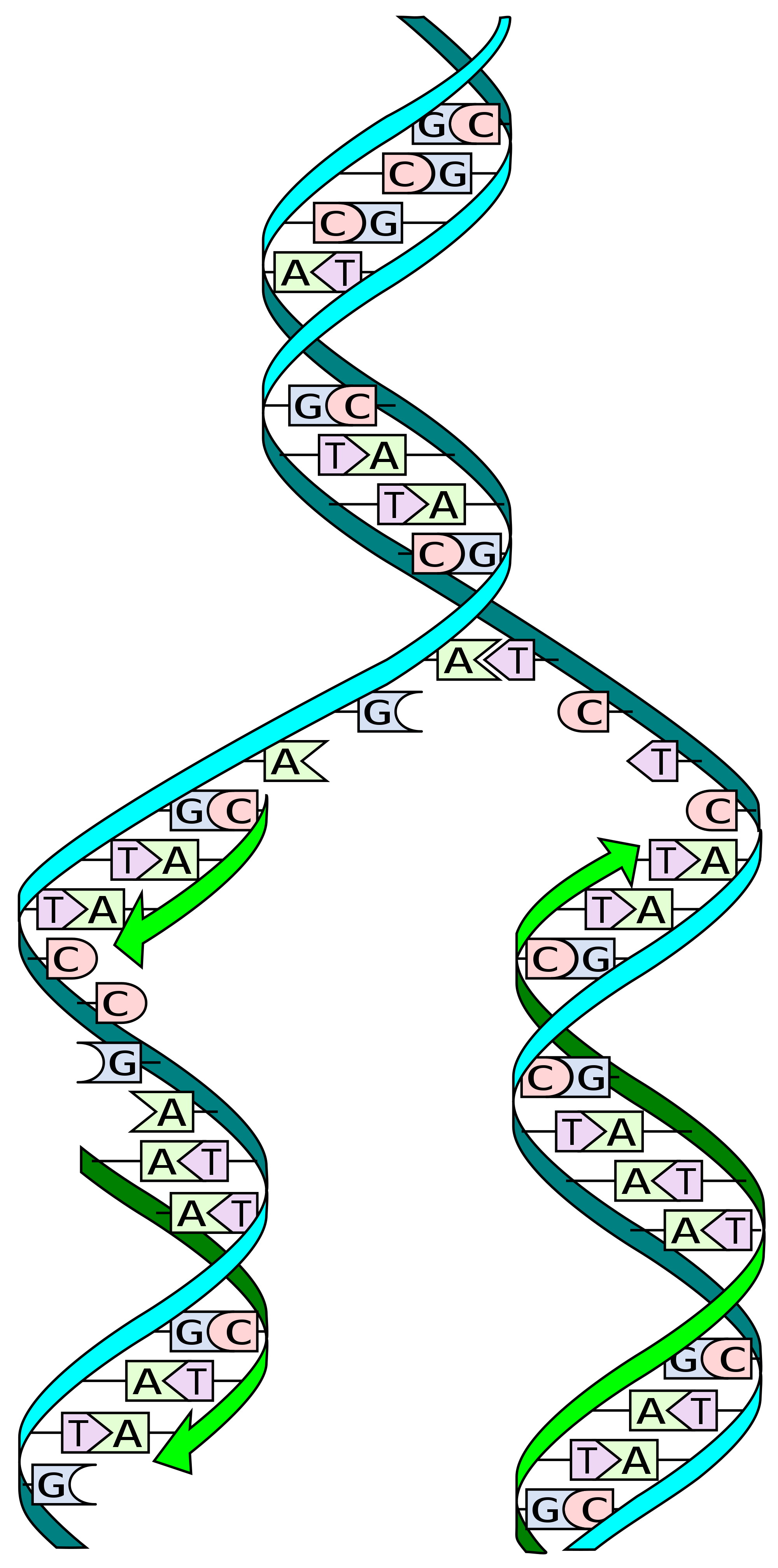 The DNA unwinding element (DUE) as the site of DNA replication origin formation for DNA replication to start occurring.